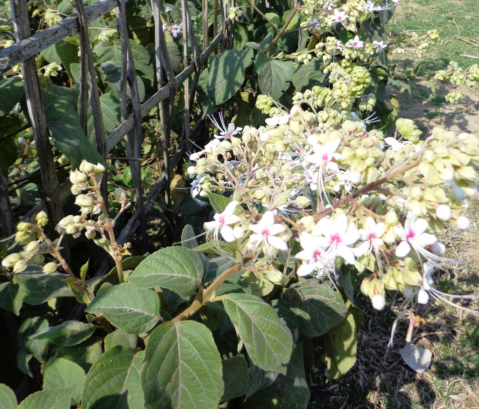 Clerodendrum infortunatum at Zakiganj, Sylhet, Bangladesh.